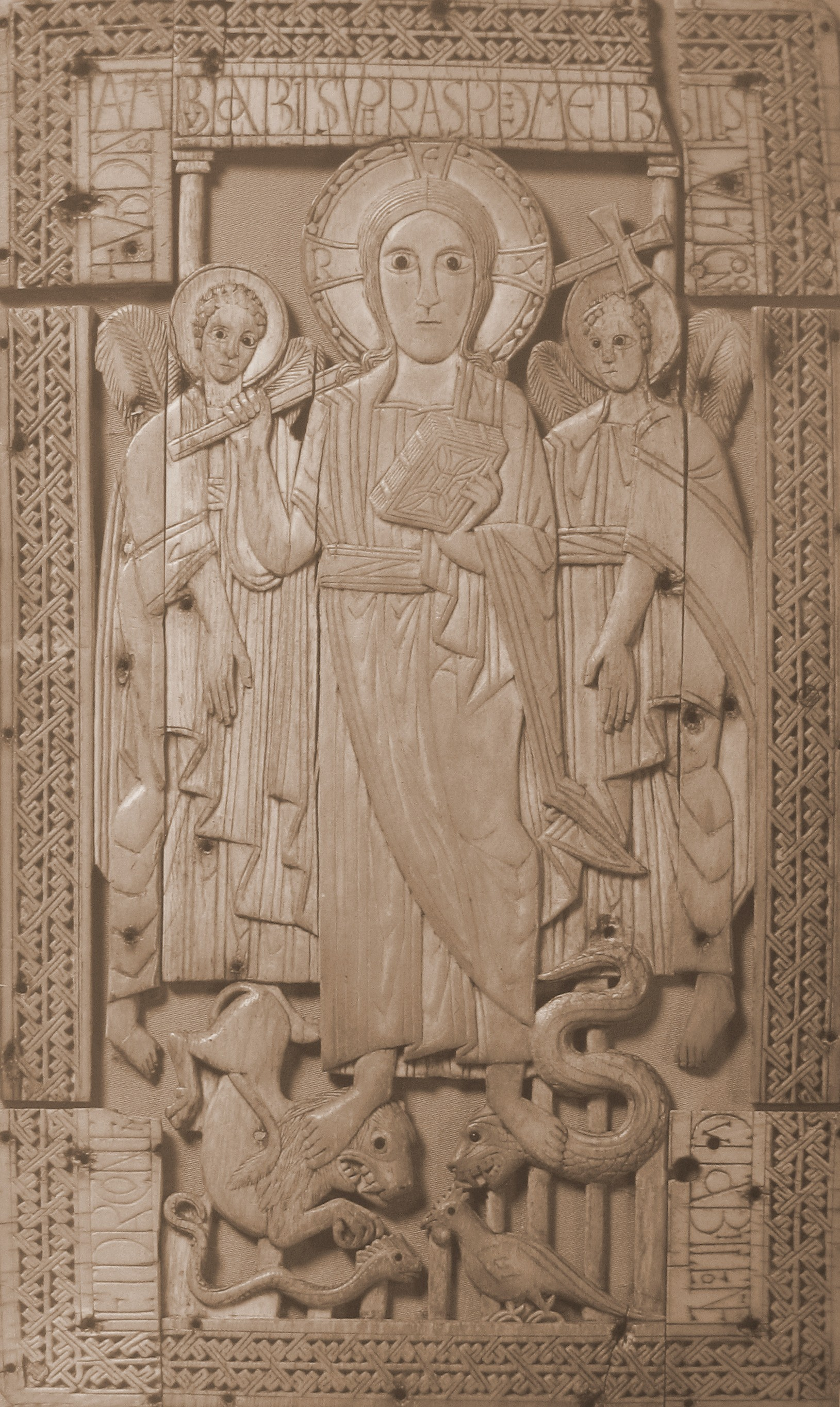 Ninth century ivory plaque from Genoels-Elderen (present-day Belgium)